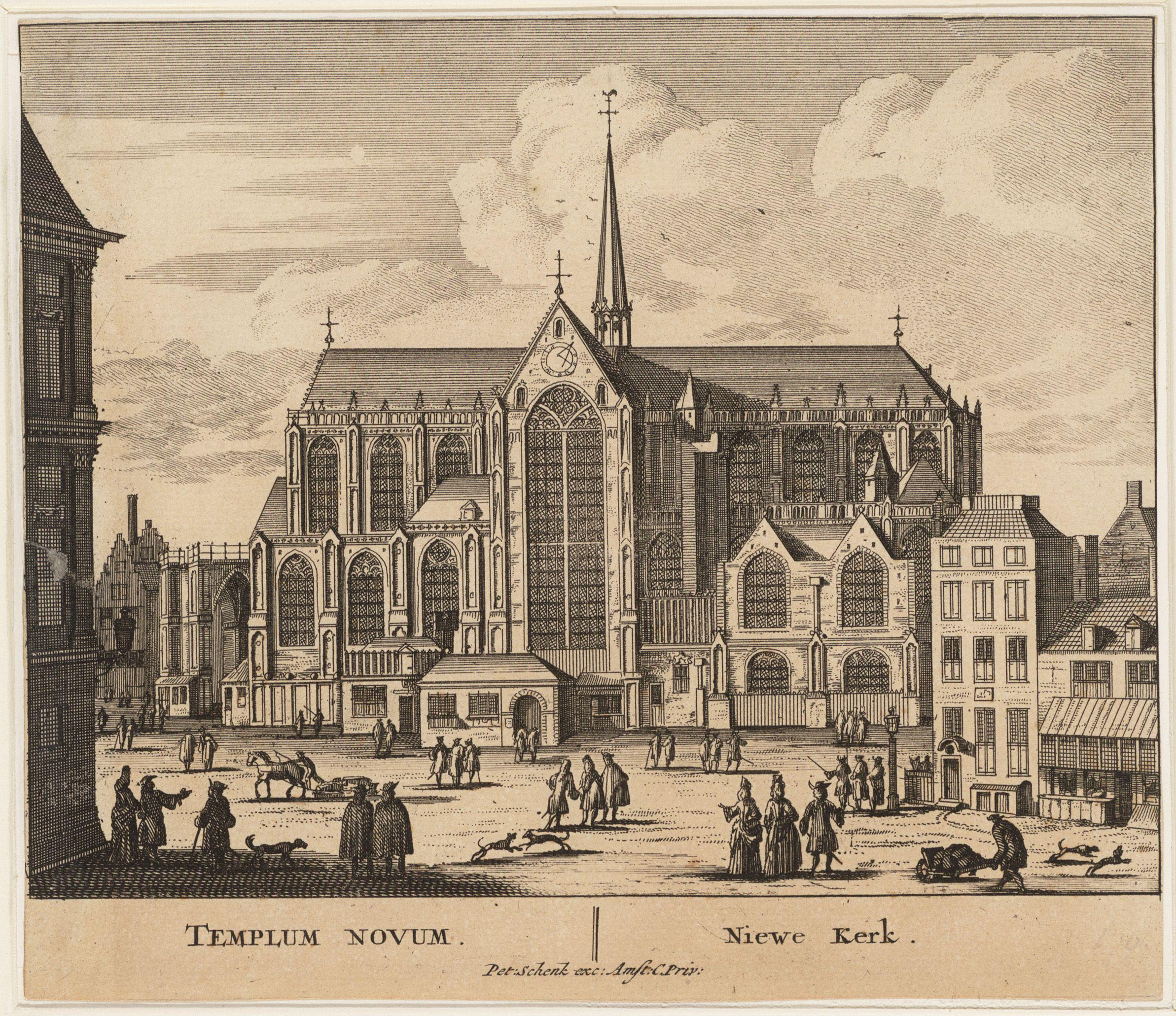 Nieuwe Kerk, Amsterdam.